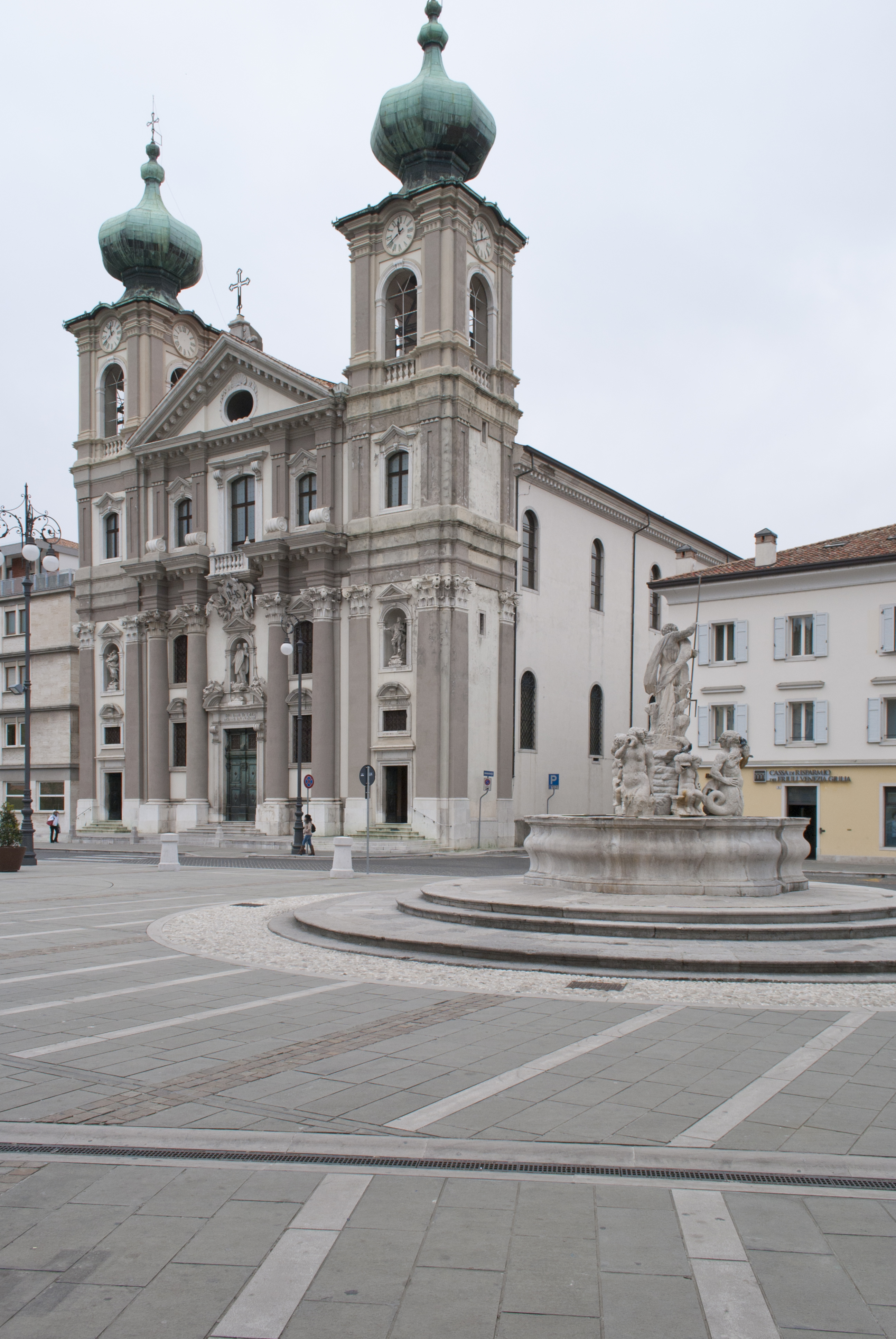 Church of Sant Ignatius in Gorizia, Italy.